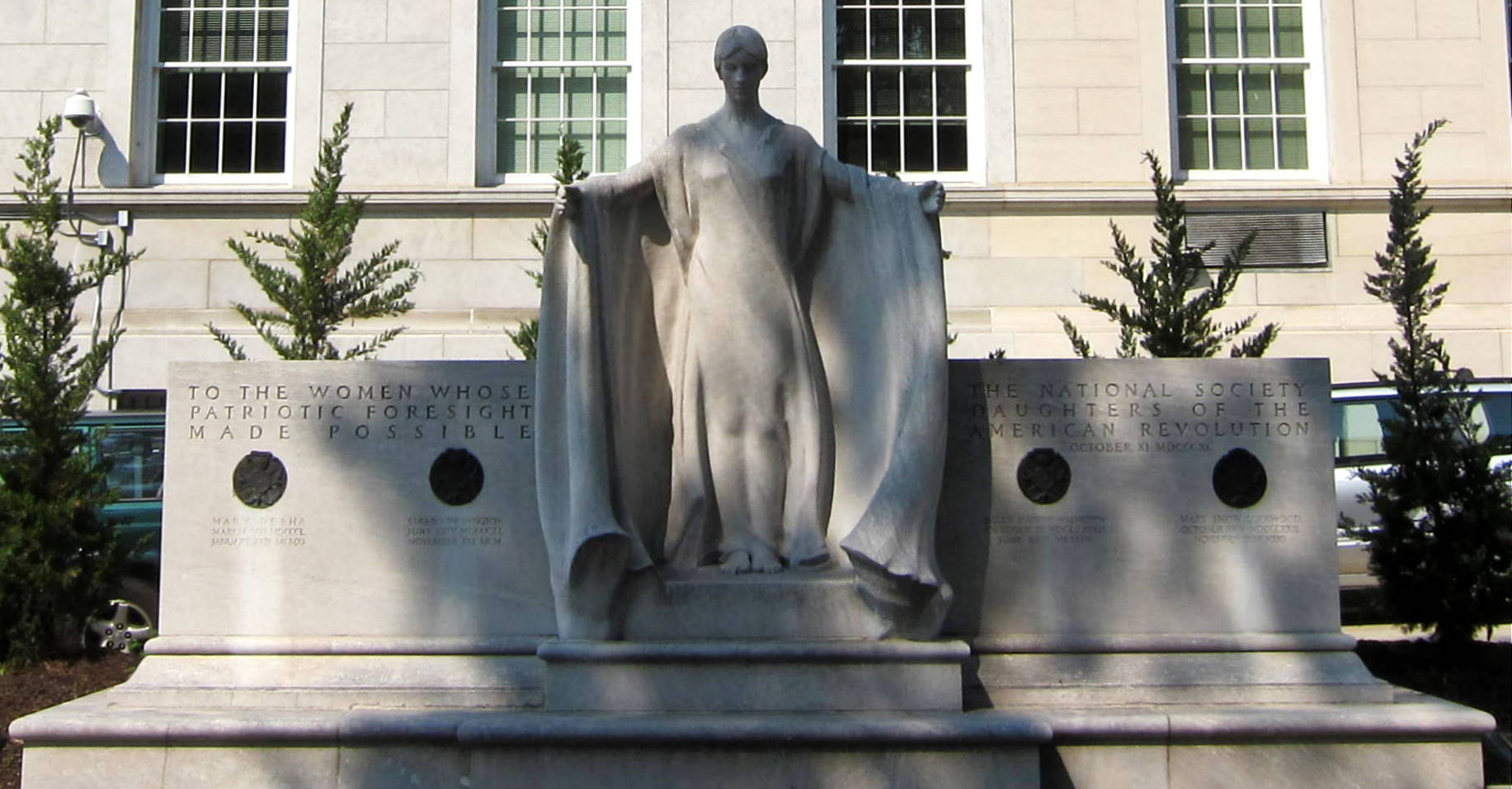 The Founders of the Daughters of the American Revolution, a 1929 marble sculpture by Gertrude Vanderbilt Whitney. It is located beside DAR Constitution Hall, headquarters for the Daughters of the American Revolution, in Washington, D.C.